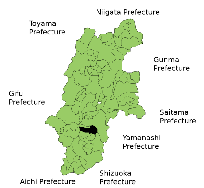 Location Map of Komagane in Nagano Prefecture, Japan